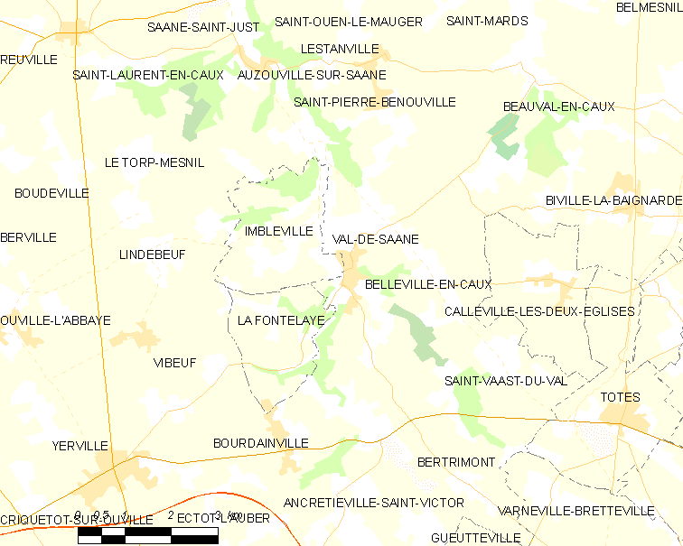 Map of French municipality Val-de-Saâne